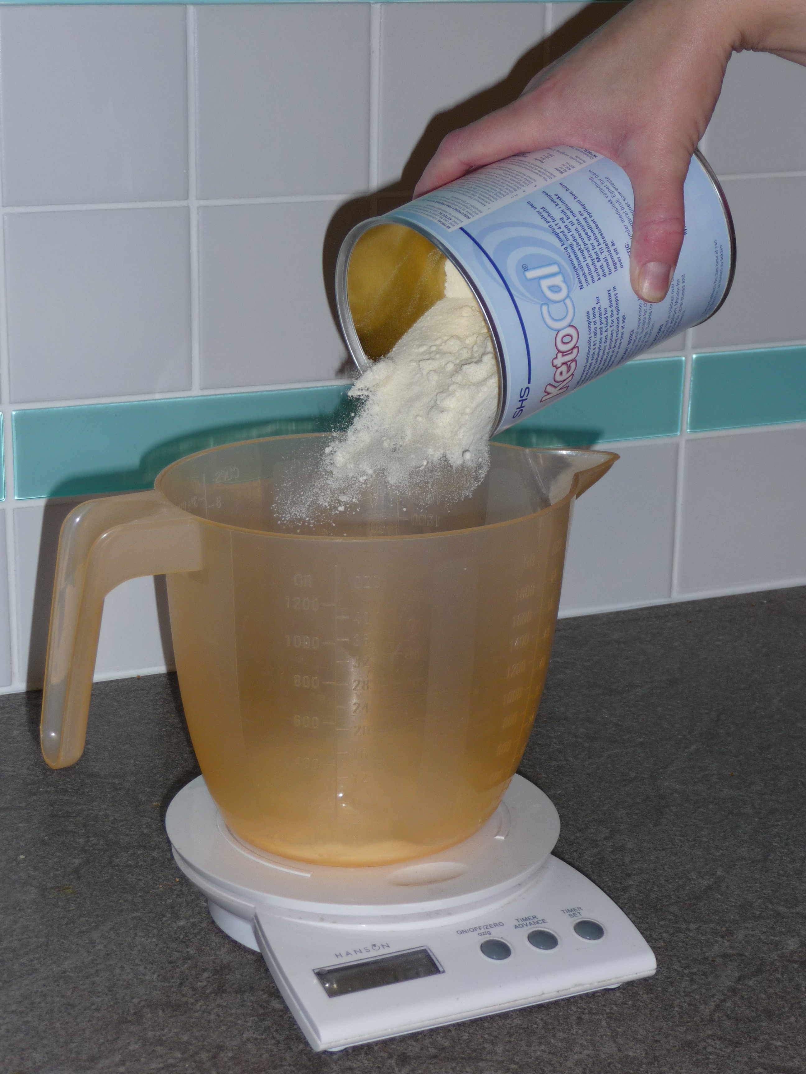 Measuring out SHS KetoCal. A nutritionally complete powdered feed with a 4:1 ratio of fat to carbohydrate + protein, for use in the ketogenic diet. Most patients on the ketogenic diet consume normal food with the overall proportions of fat, carbohydrate and protein altered. Patients who are tube fed or are infants can take a formula like this instead.